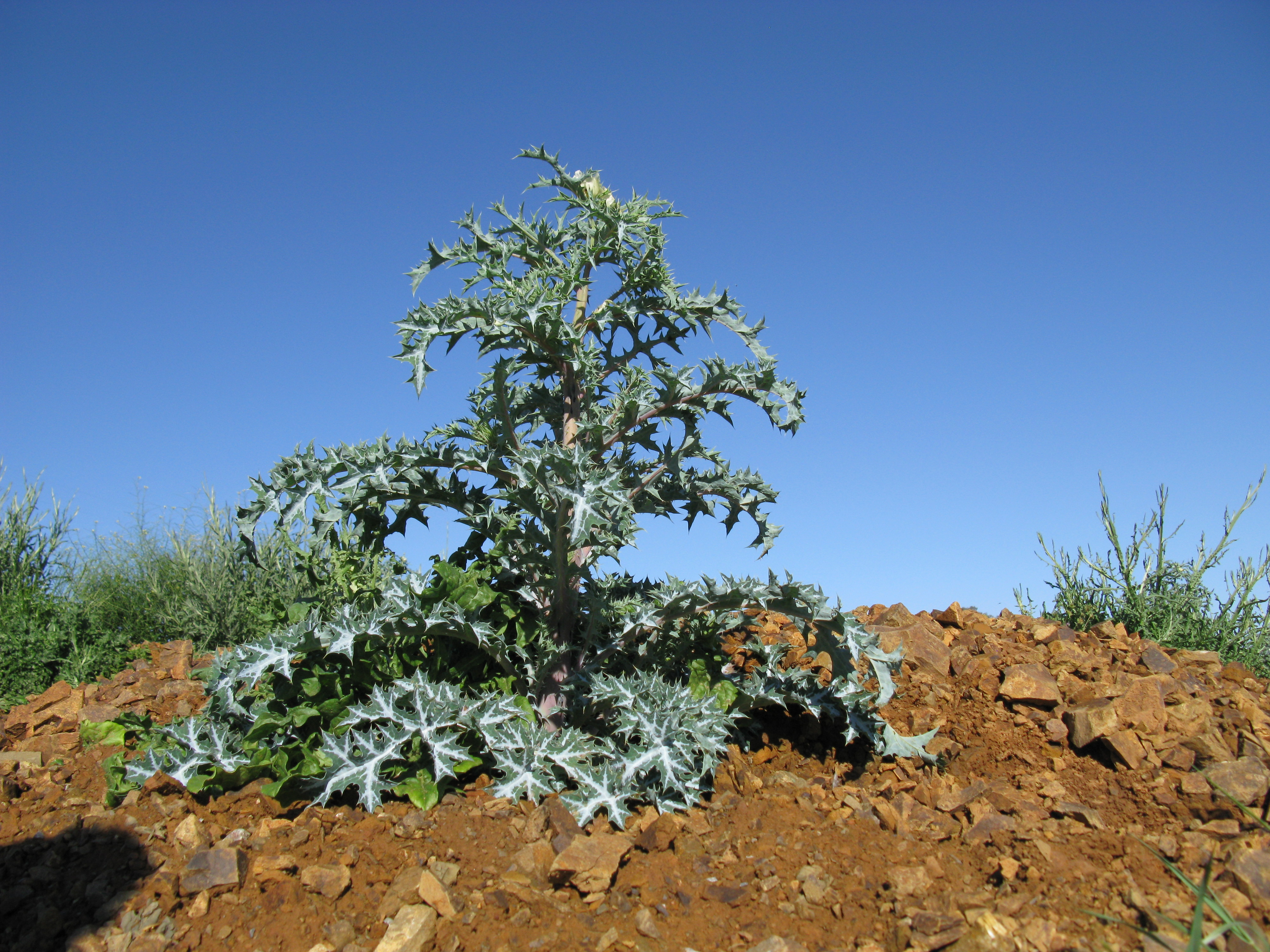 Introduced, warm-season, annual, erect, blue-green herb; 60-120 cm tall and with yellow sap. Leaves initially form a rosette; they often have white main veins, with wavy margins and spined lobes. Flowers are 3-6 cm wide and have 5 creamy to pale yellow petals. Fruits are spiny ovoid capsules, 1.5-4 cm long. Flowering is in spring and summer. A native of Mexico, it is a weed of sandy river flats, overgrazed pastures, cultivated land, roadsides and waste places. An indicator of disturbance, poor ground cover and low fertility. All parts of the plant are poisonous to stock, but it is unpalatable and rarely grazed; more likely to cause poisoning in hay or silage. It is not a very competitive weed and the seedlings cannot compete with established pastures; hence, more a weed of cropping and for a short time in pastures after disturbance (e.g. floods). Control can be achieved by maintaining healthy vigorous pastures, hand pulling plants (be careful not to scatter seeds), slashing and herbicides.